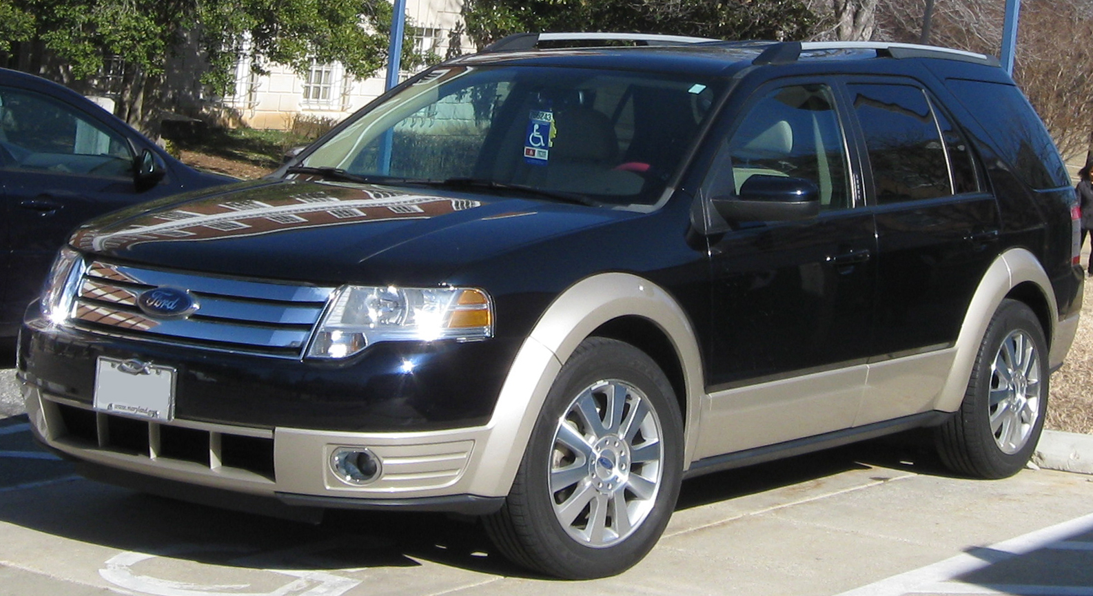 Ford Taurus X photographed in College Park, Maryland, USA.